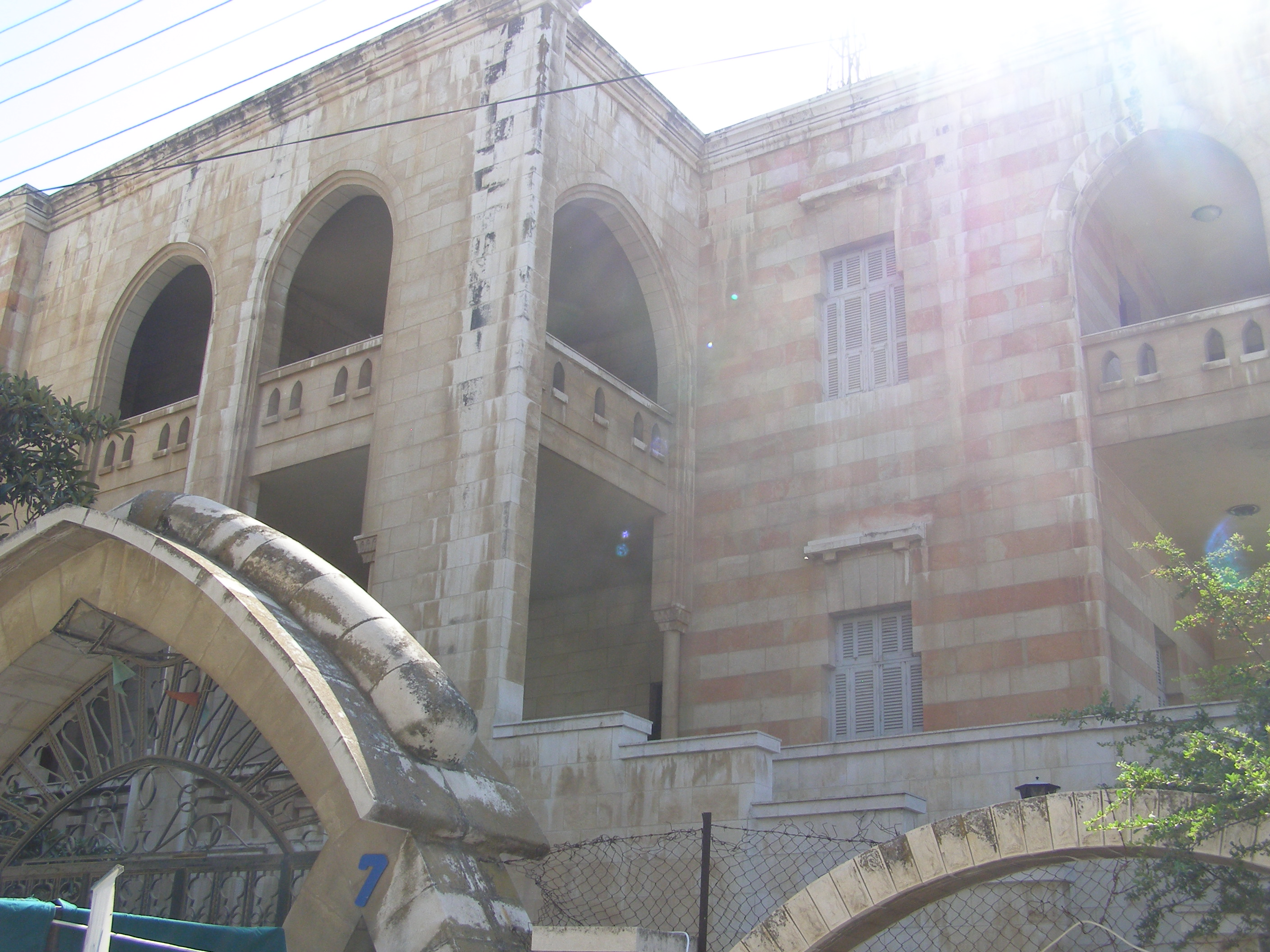 An old house in the older part of Jabal Amman located next to where Souk Jara is held